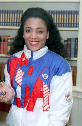 C50027-6, President Reagan greeting Florence Griffith Joyner of the U.S. Olympic team in the oval office. 10/24/88.